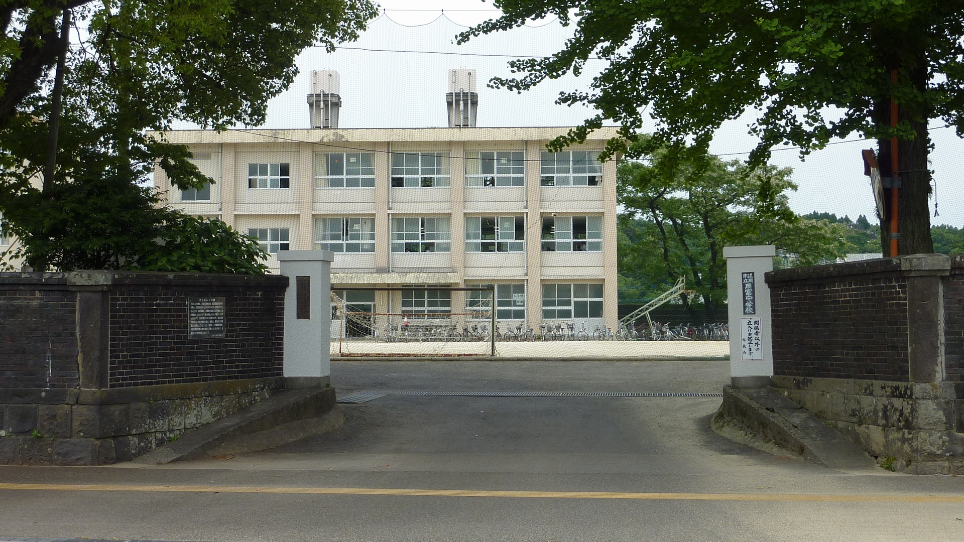 Okatomi Junior High School (Nobeoka City, Miyazaki Prefecture, Japan)